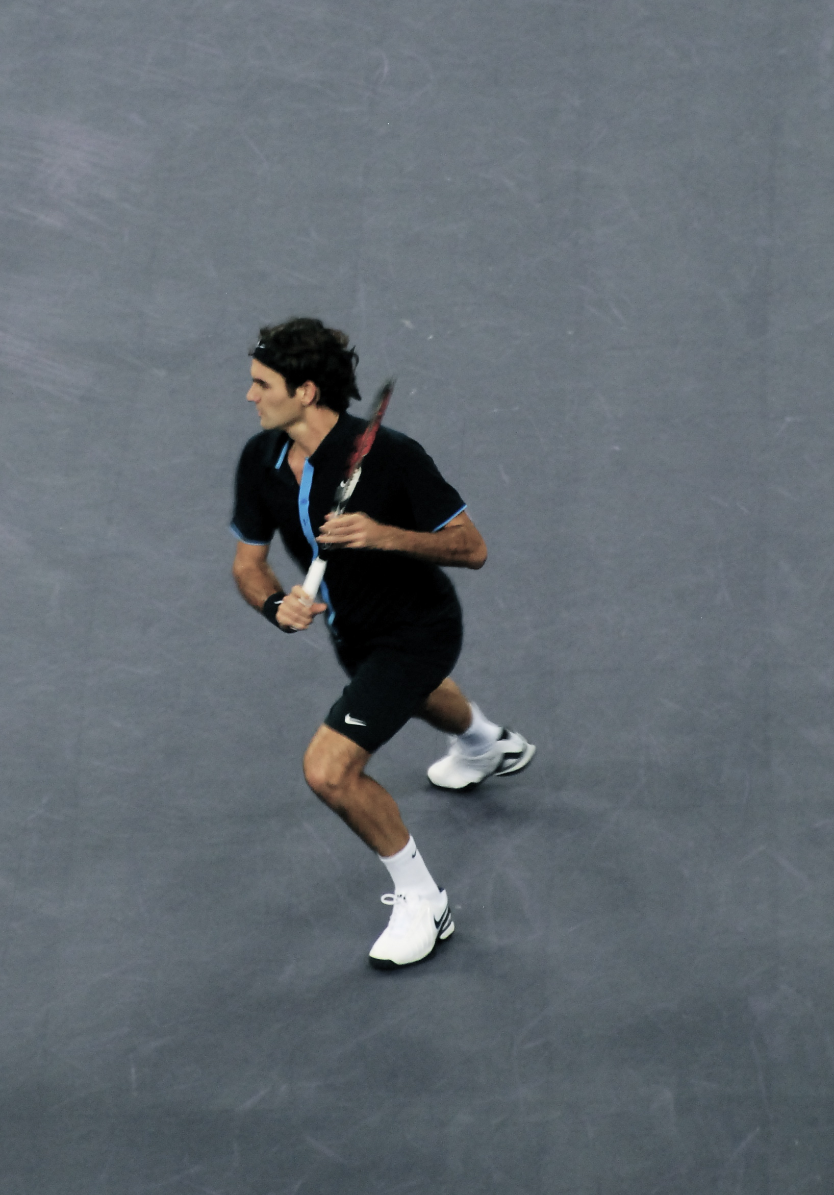 Roger Federer against Andy Murray at the 2008 Tennis Masters Cup